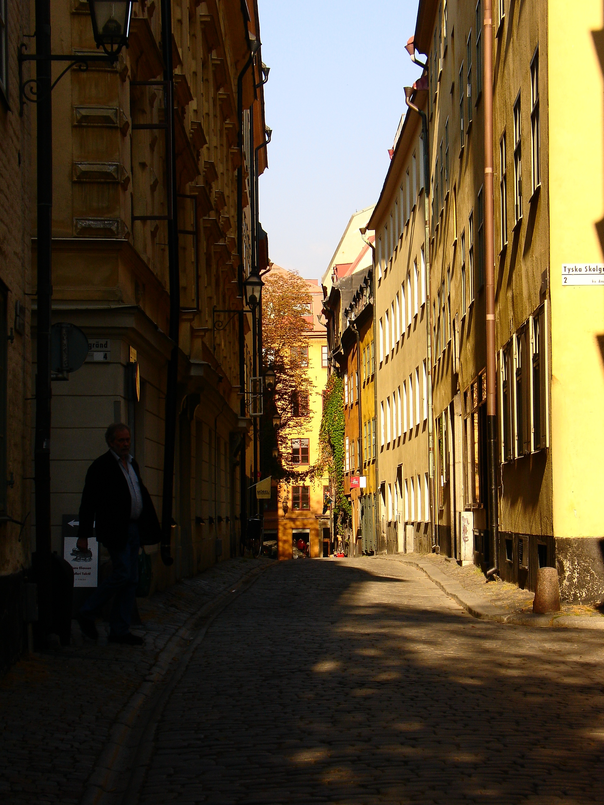 Själagårdsgatan in Stockholm, Sweden